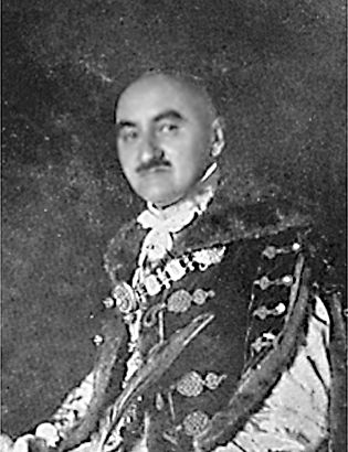 Hungarian writer, politician